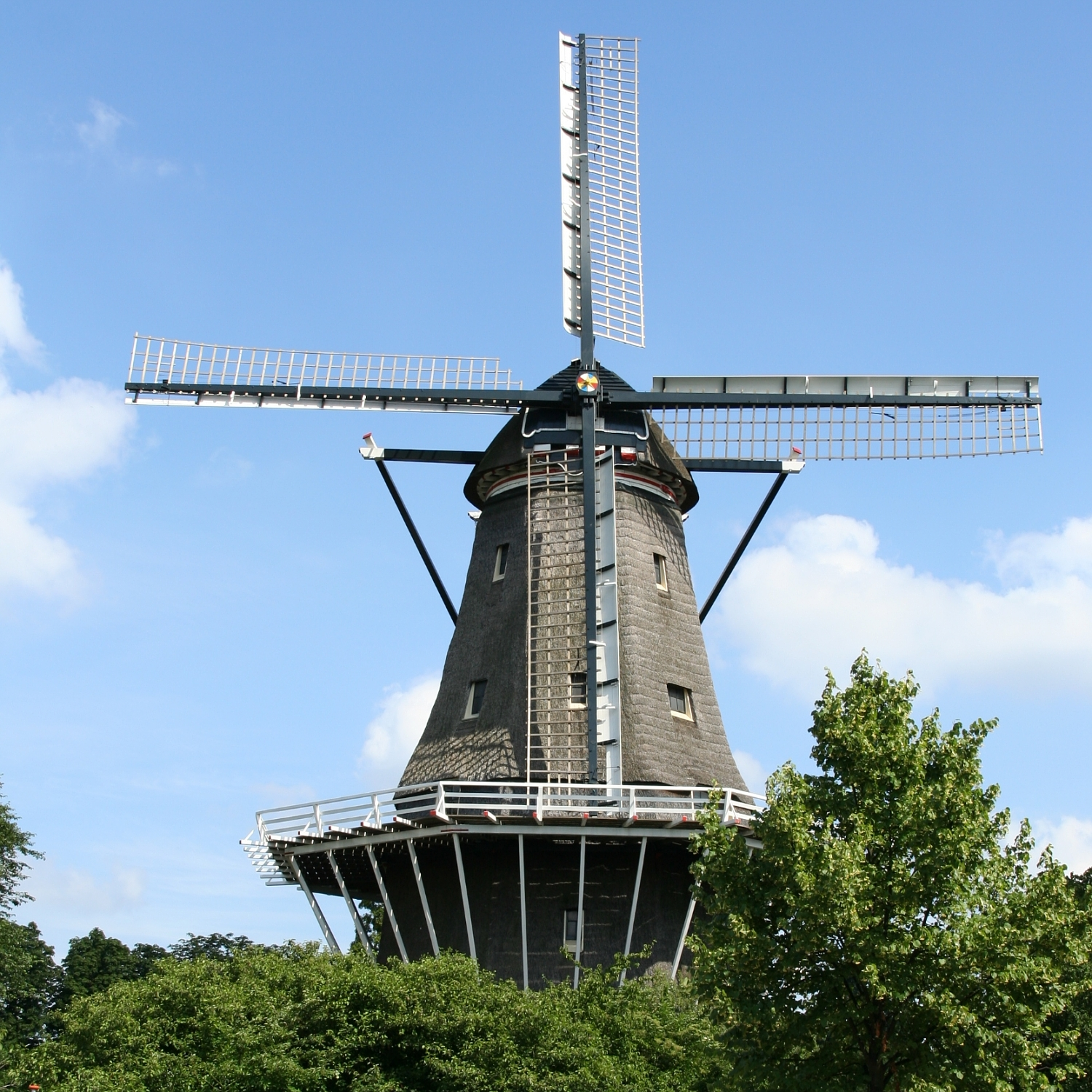 The Bloem windmill in Amsterdam